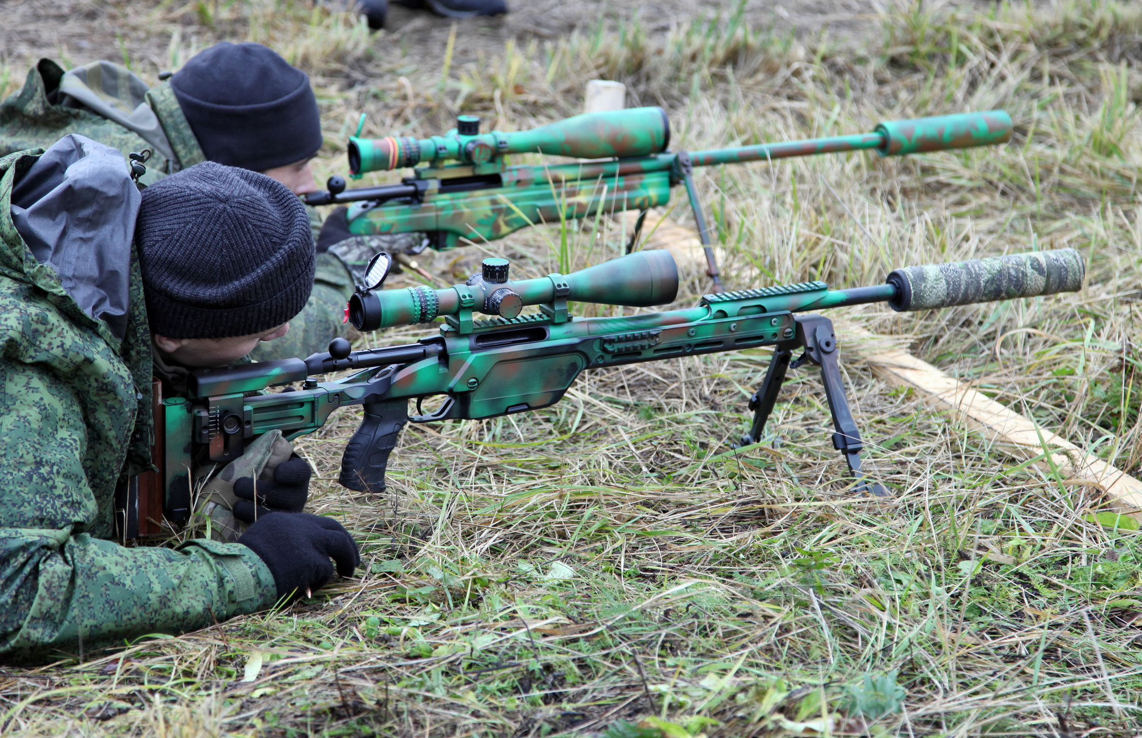 The winners